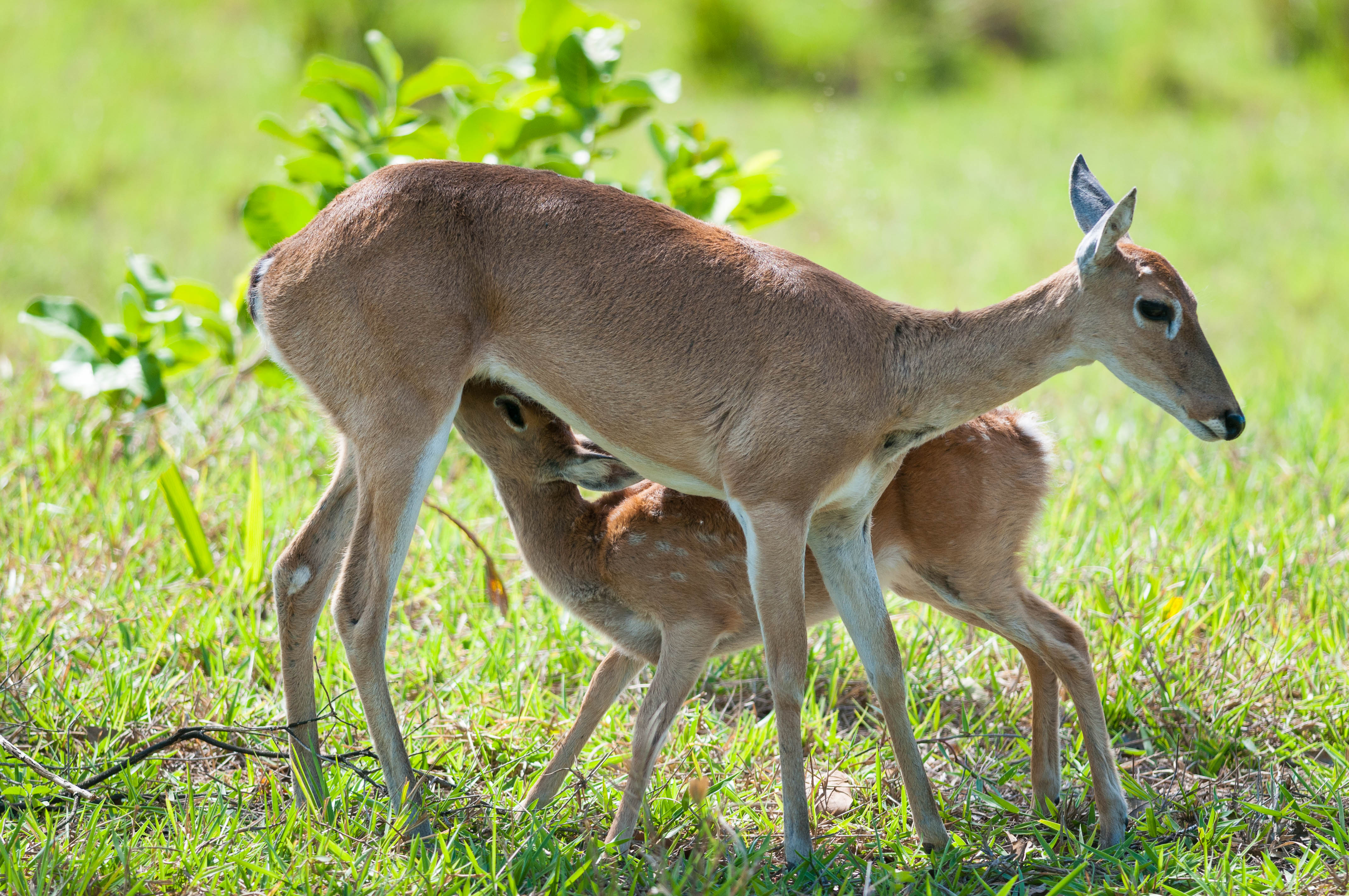 A Pampas deer (Ozotoceros bezoarticus) nursing a fawn in Pantanal, Brazil.